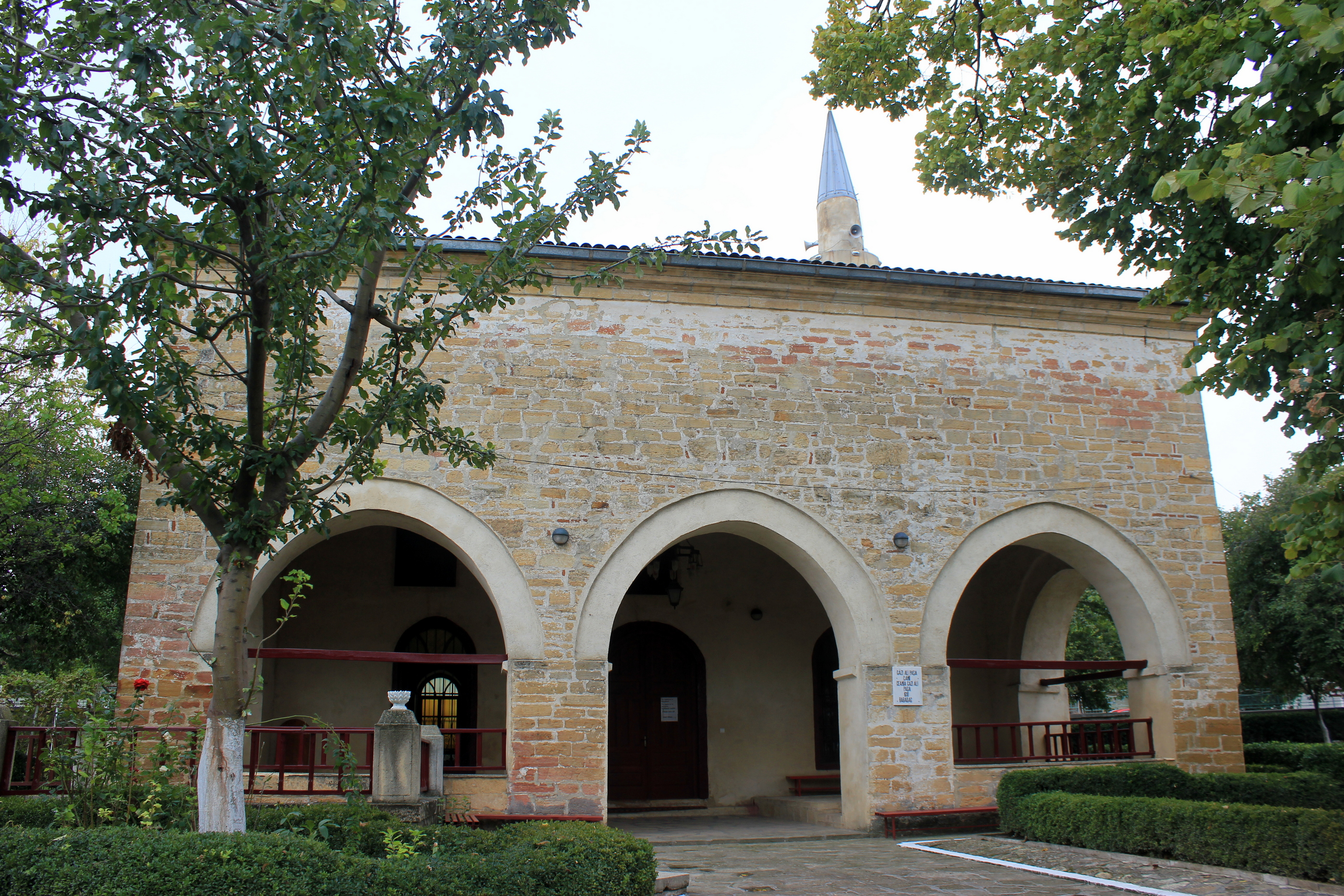 Mosque in Babadag, Romania.